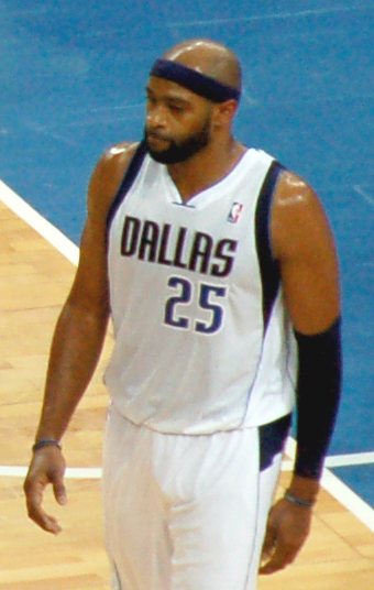 Vince Carter with the Dallas Mavericks, October 2012.